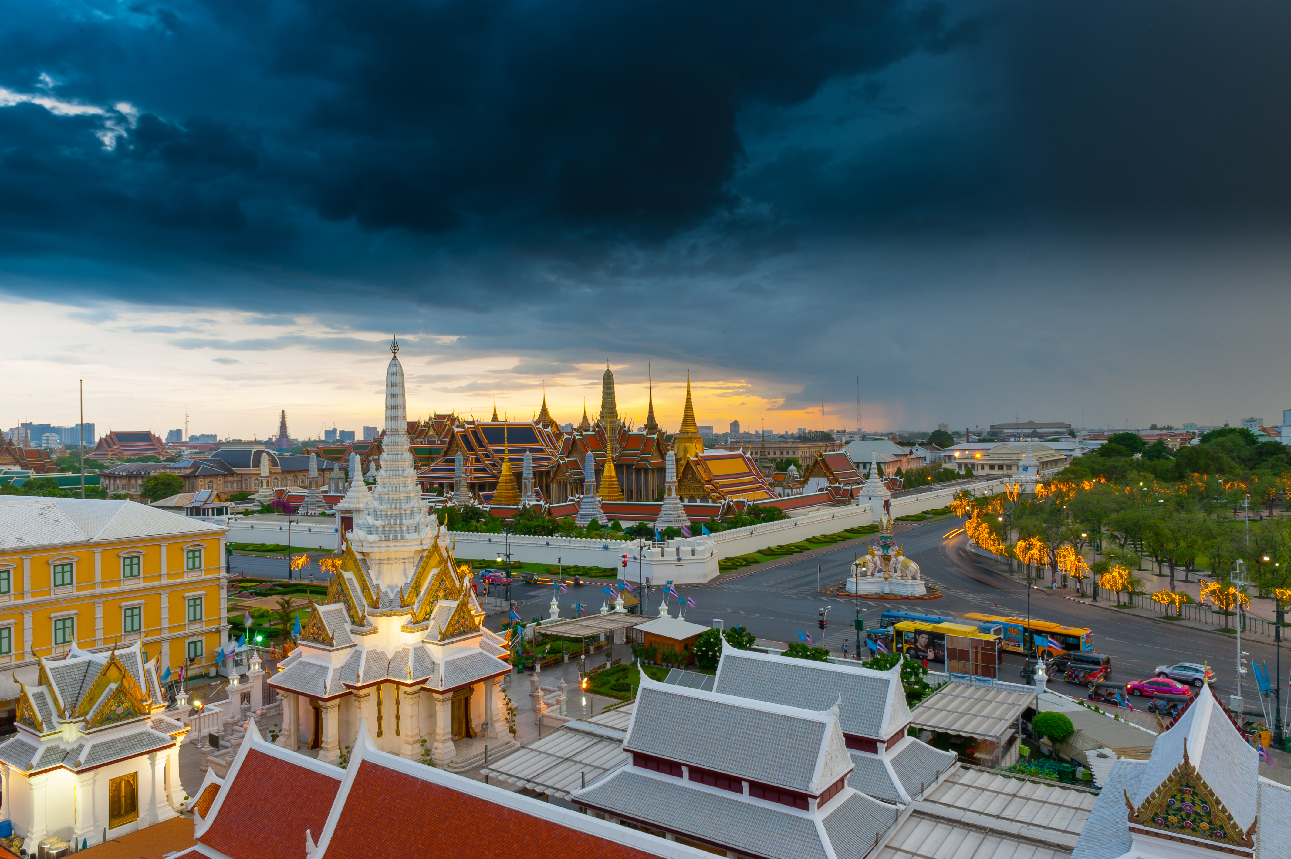 Bangkok City Pillar Shrine (the white building with multi-tier square spire in the front of the picture), Ministry of Defence (the yellow building in the left), the Grand Palace and Wat Phra Si Rattanasatsadaram (the walled group of buildings in the background) and Sanam Luang (the green field in the far right) This is a photo of a monument in Thailand identified by the ID 0000012 (Thai Fine Art Department's link) This is a photo of a monument in Thailand identified by the ID 0000054 (Thai Fine Art Department's link)